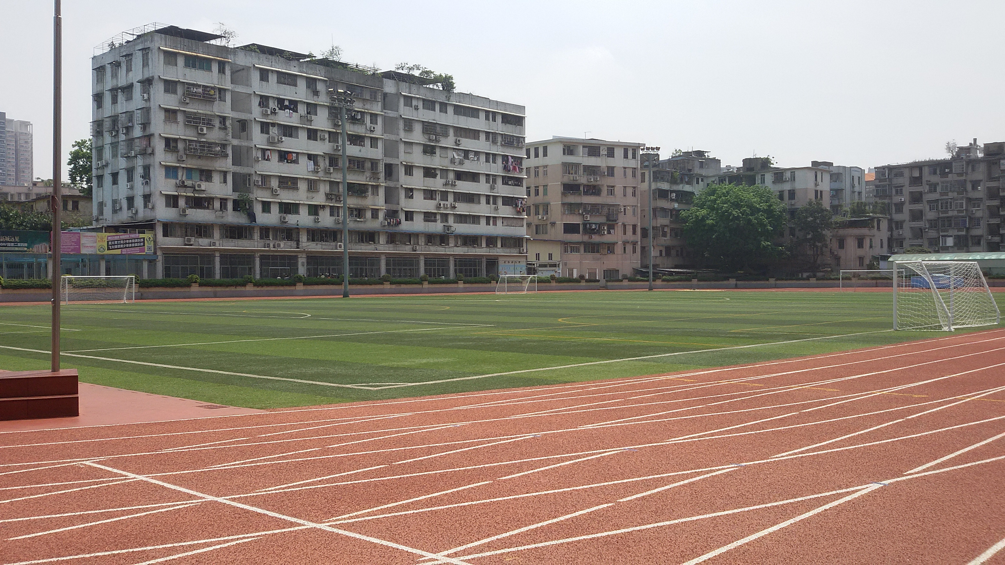 Baogang Stadium